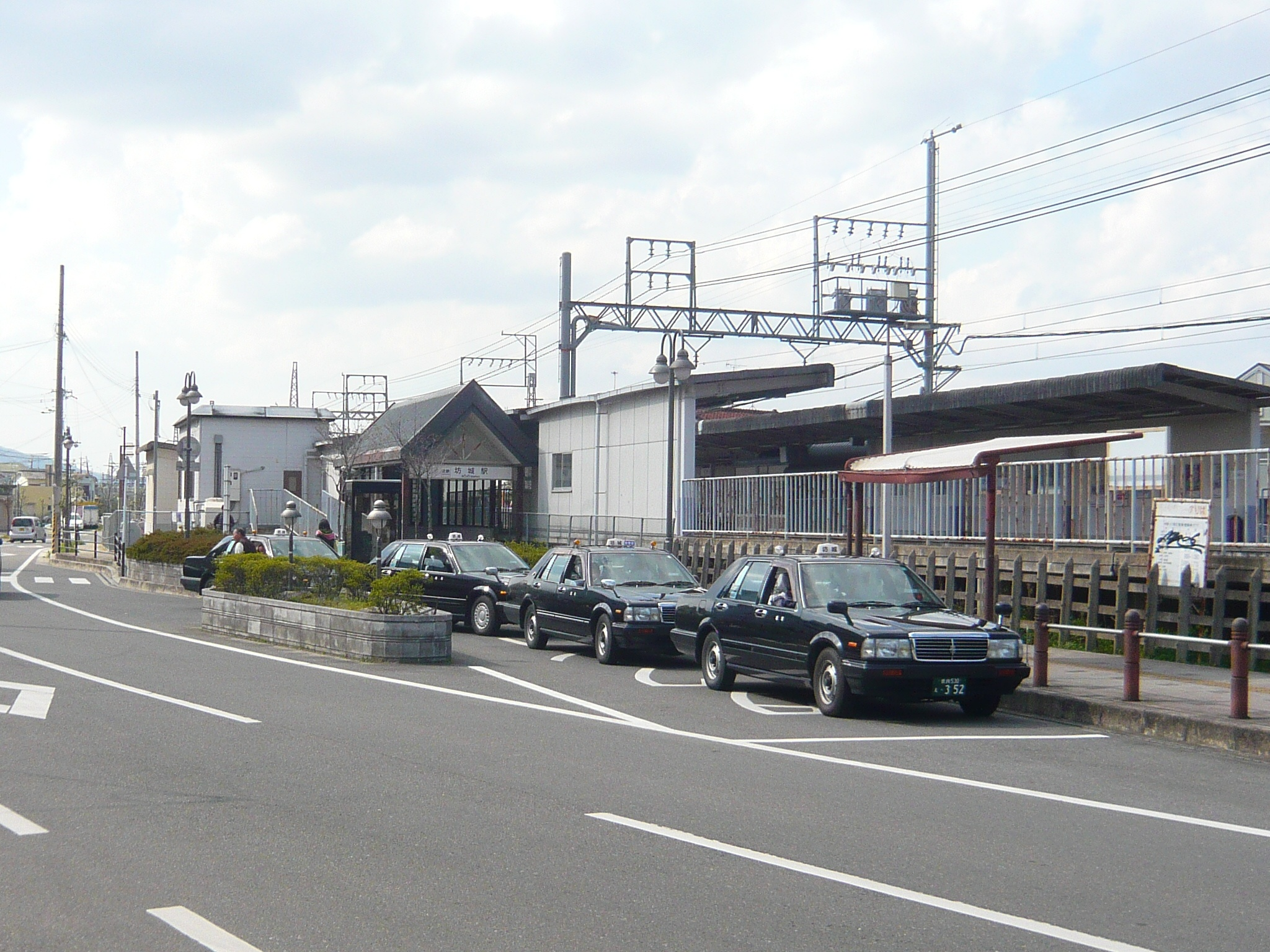 近鉄南大阪線 坊城駅 Bōjō station 2010.4.03